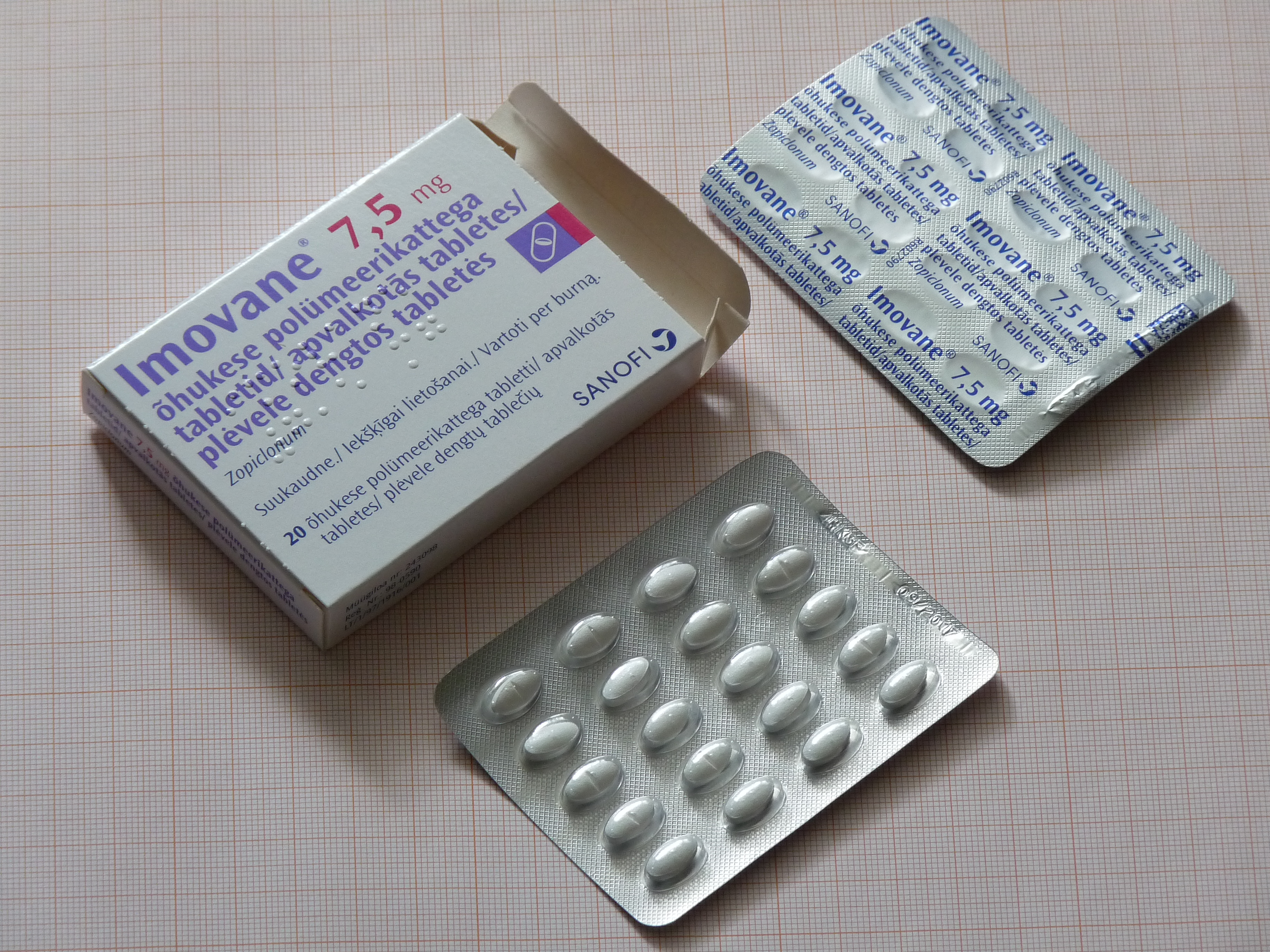 Sanofi Imovane 7,5 mg